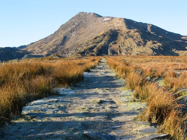 The Path from Capel Curig to Moel Siabod. At 08:57, the early morning sun lit up the eastern slopes of Moel Siabod, viewed from the track leading up from Pont Cyfyng.